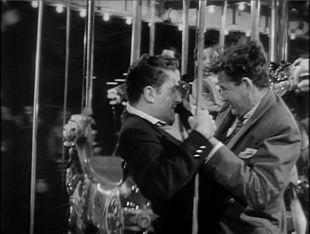 Guy Haines (Farley Granger) and Bruno Anthony (Robert Walker) struggle on a merry-go-round in Alfred Hitchcock's 1951 Strangers on a Train (trailer)